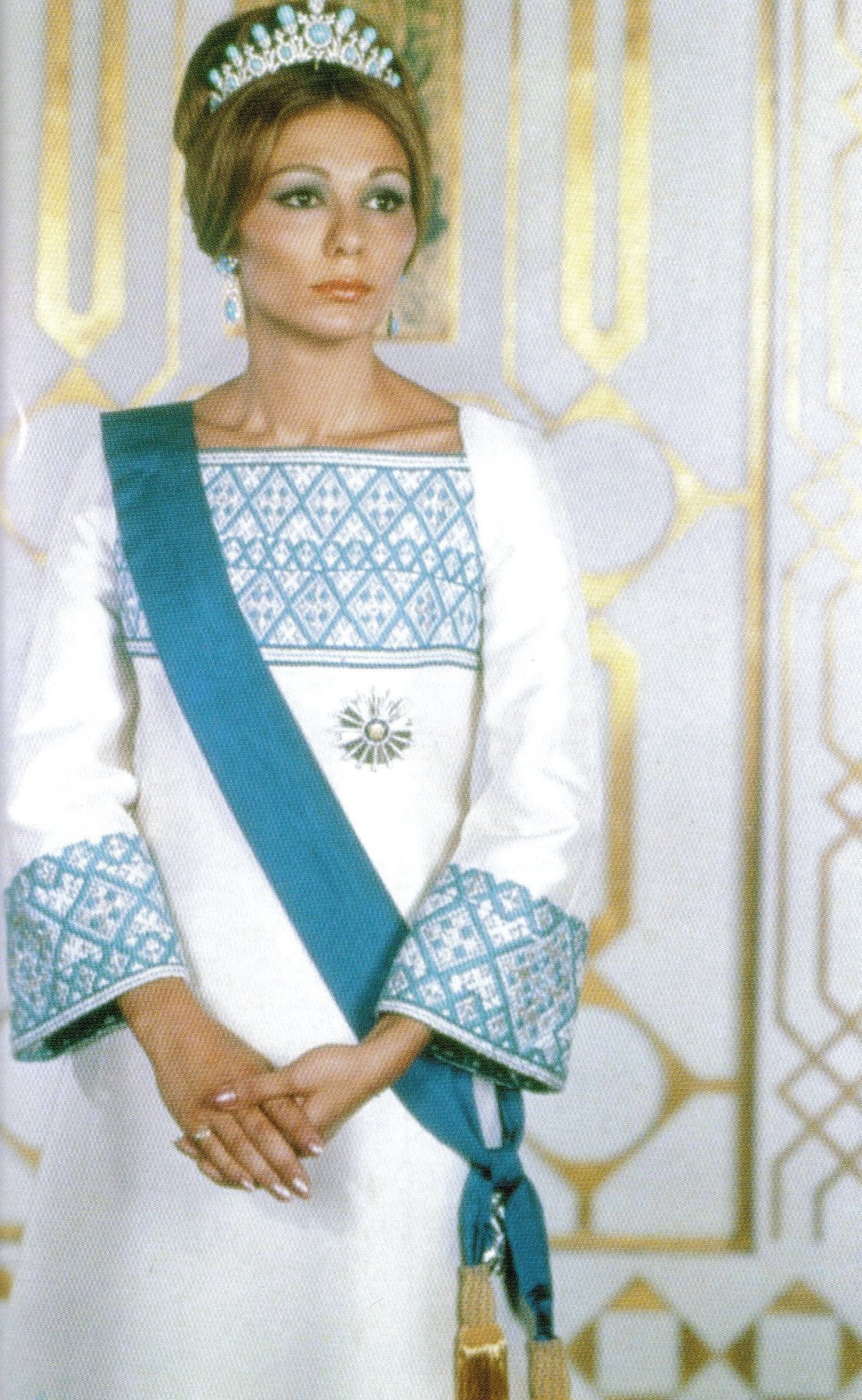 Official government portrait of Empress Farah Pahlavi.